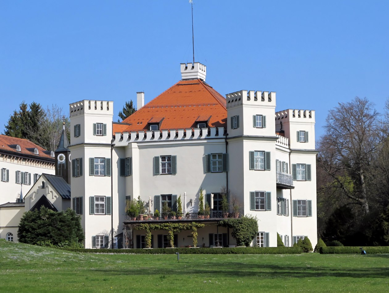 castle Possenhofen, view from South